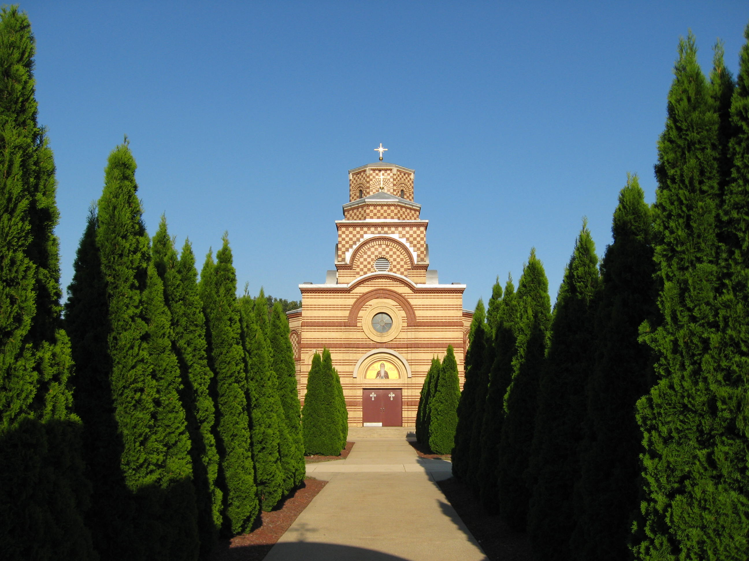 Serbian Orthodox Church of St. Simeon Mirotočivi in Chicago 3737 E. 114th St. Chicago, IL